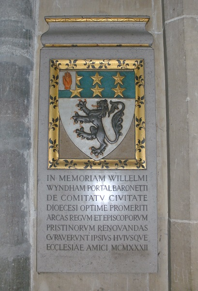 Winchester Cathedral, memorial plaque for Sir William Wyndham Portal. Location: South wall of the Nave.